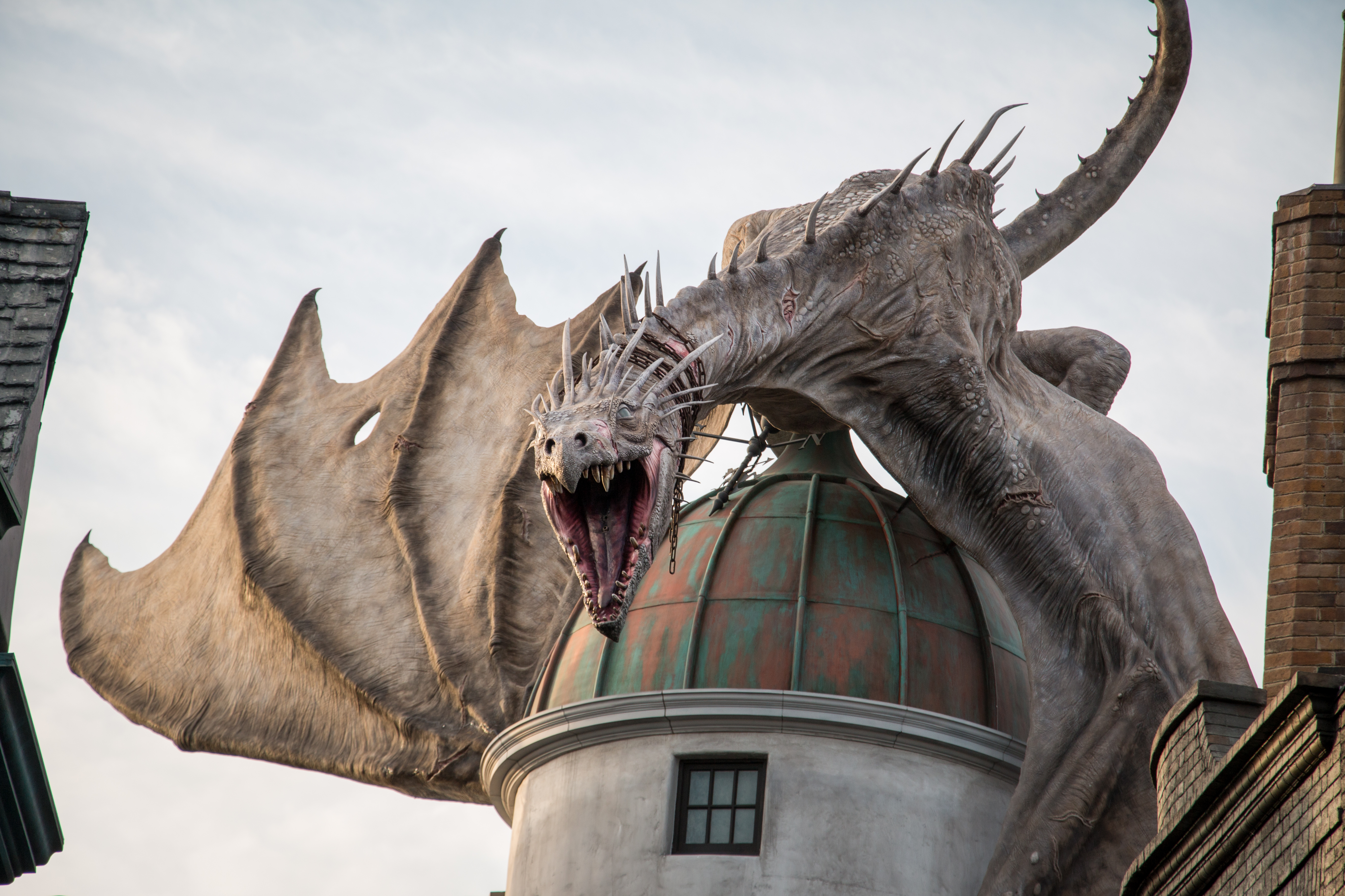 The dragon atop Gringotts in Diagon Alley at Universal Studios Florida is the best thing ever.